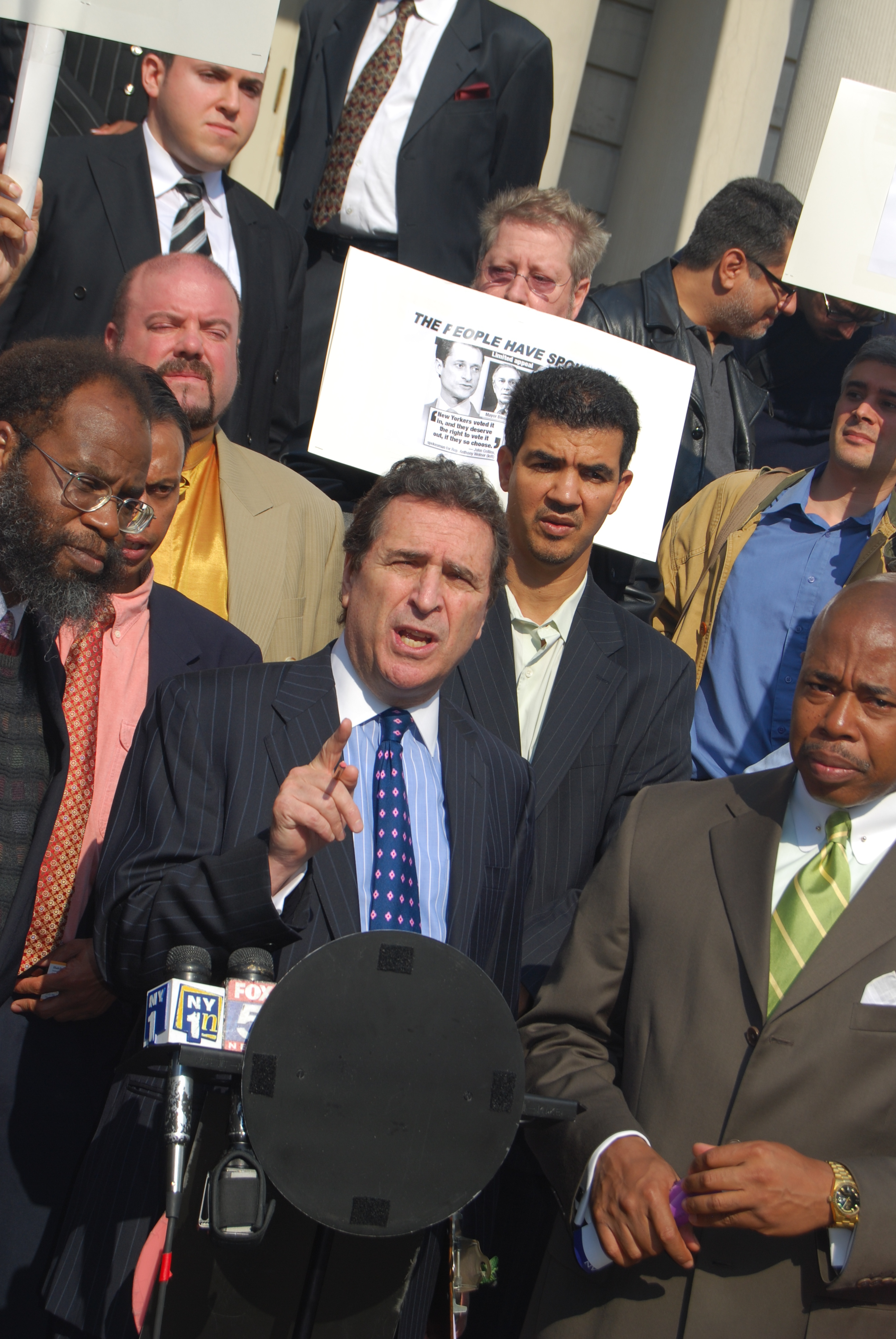 Civil rights attorney Norman Siegel at a press conference outside City Hall in lower Manhattan. New York State Senator Eric Adams is on Siegel's left, New York Civil Rights Coalition Executive Director Michael Meyers is on Siegel's right.